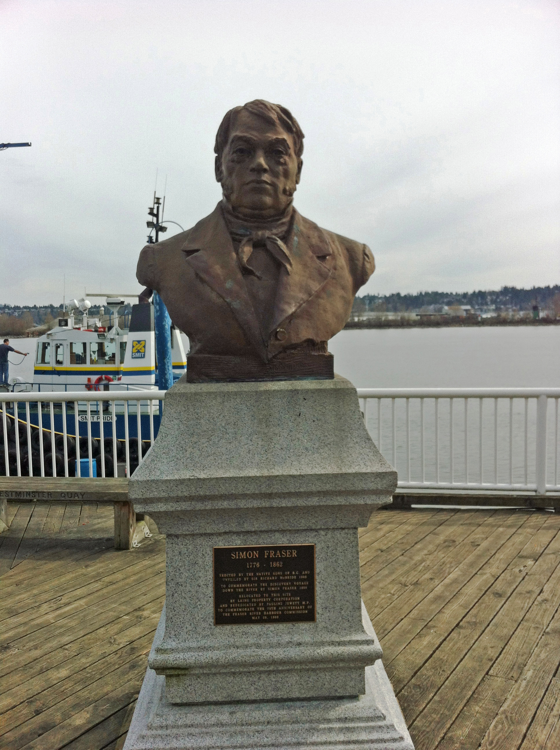 A bust of Simon Fraser, the explorer, by the Fraser River, New Westminster, BC, March 24, 2013